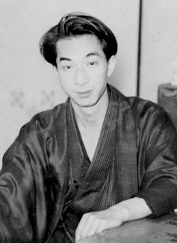 Shigeru Tonomura (1902–1961)